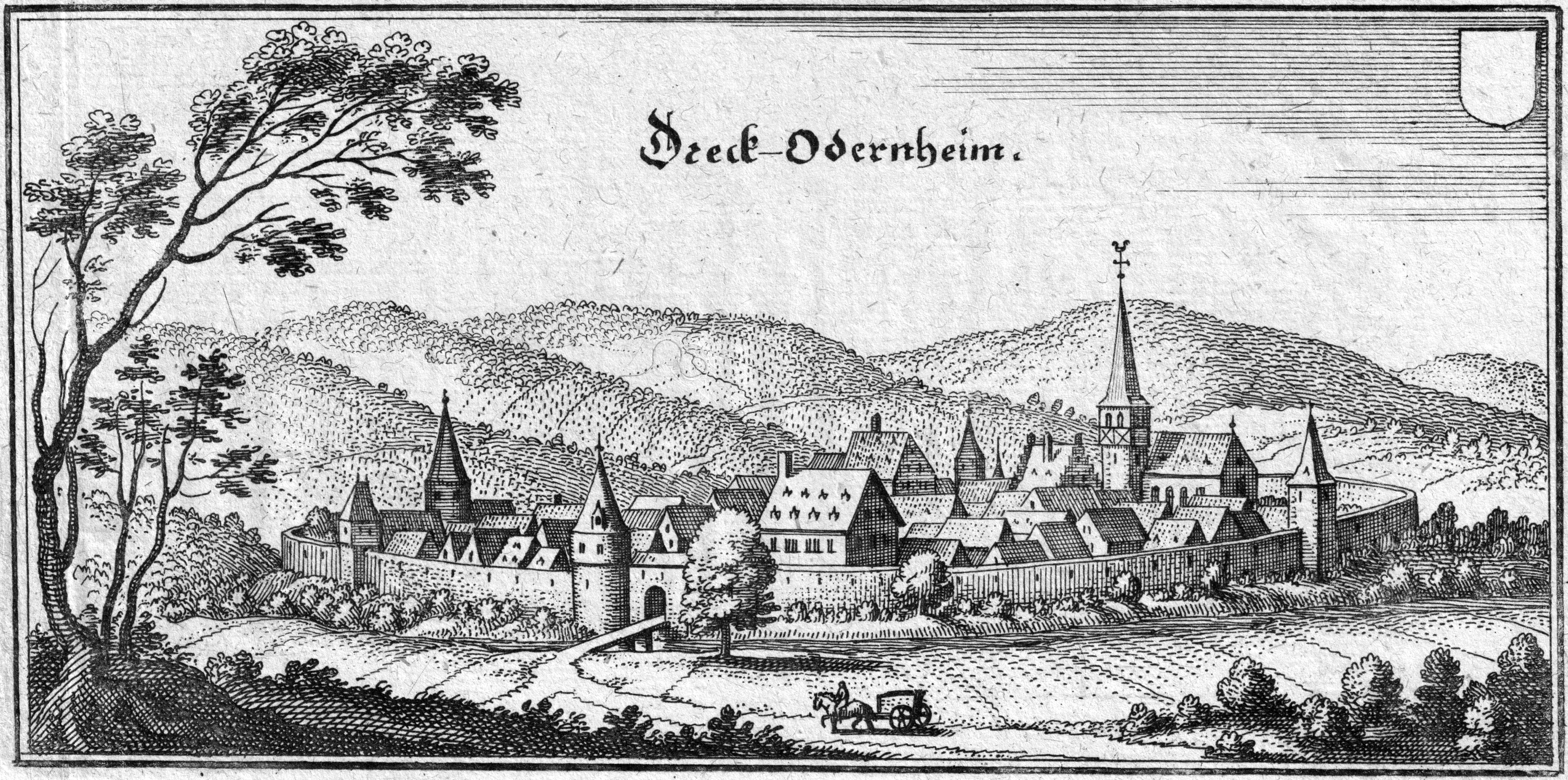 Odernheim am Glan